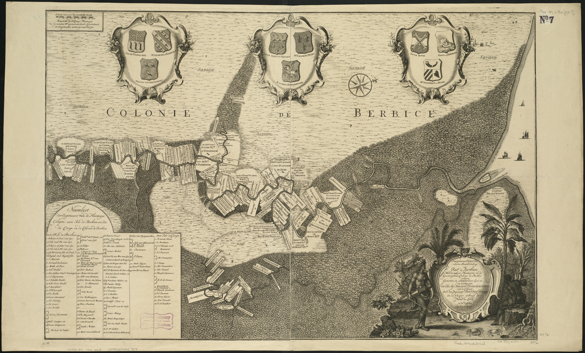 Zoom into this map at . Author: Knapp, Jan Daniel Publisher: Leth, Henderick de Date: 1720 Location: Berbice, Berbice River (Guyana) Dimension 57x85cm Scale: 1:314,957 Call Number: G5252.B4 1720 .K63